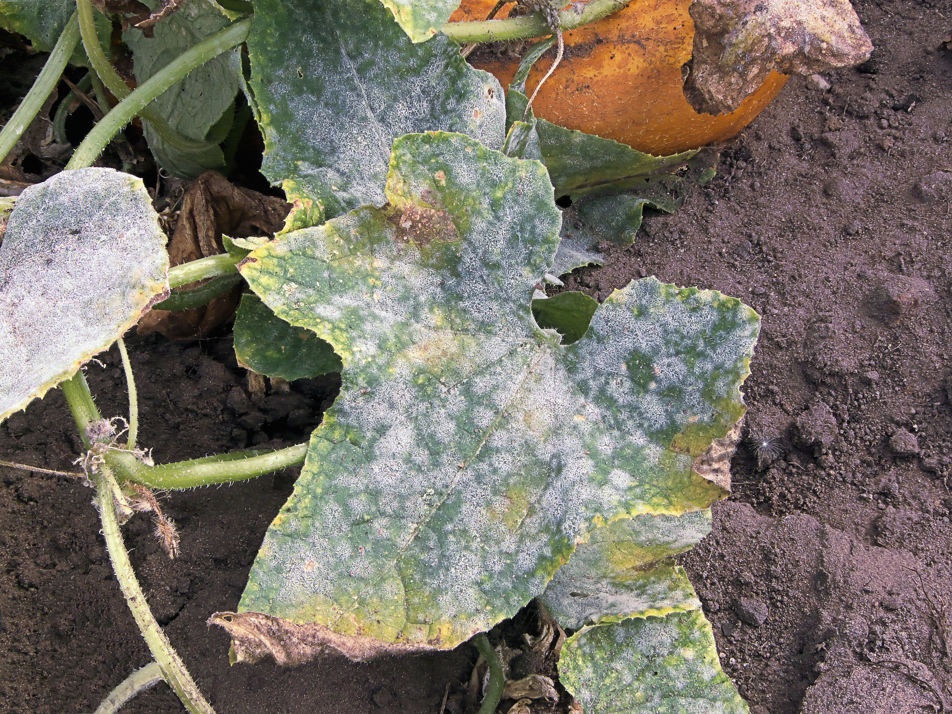 Sphaerotheca fusca syn. Sphaerotheca fuliginea on Cucumber leaves